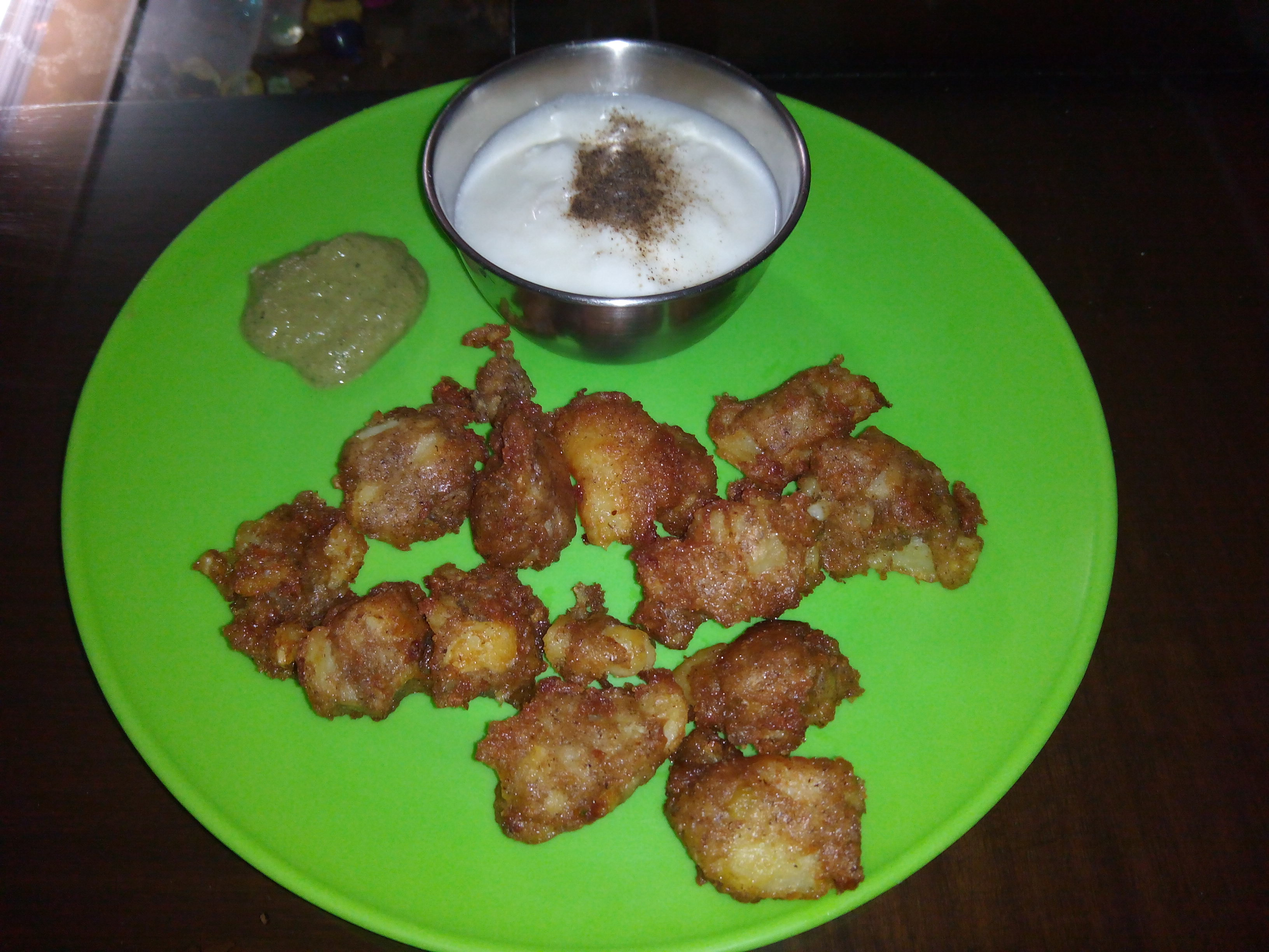 Kuttu Pakoras, served with spiced yogurt and chutney, from India.